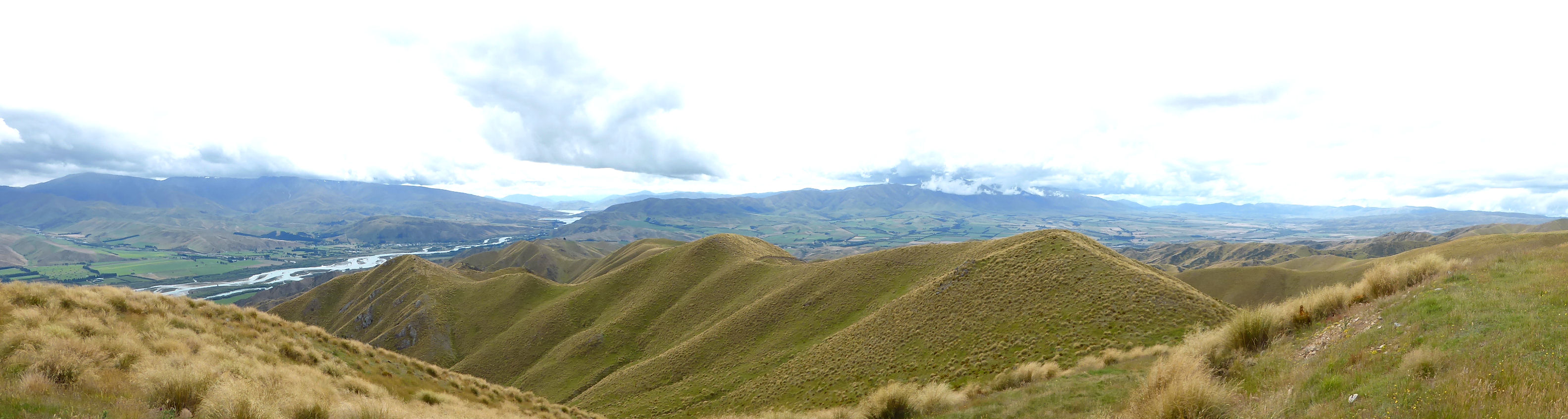 Waitaki Valley and the Hakataramea Valley seen from theTransmittors .